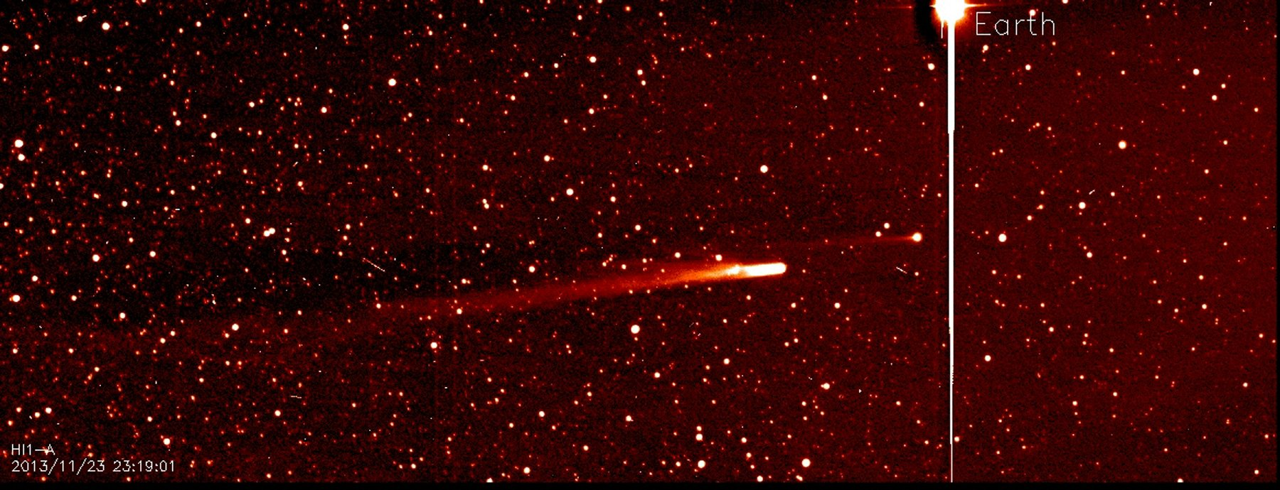 25-Nov-13 21:19 UT - ISON as seen by STEREO. Also visible is comet Encke.